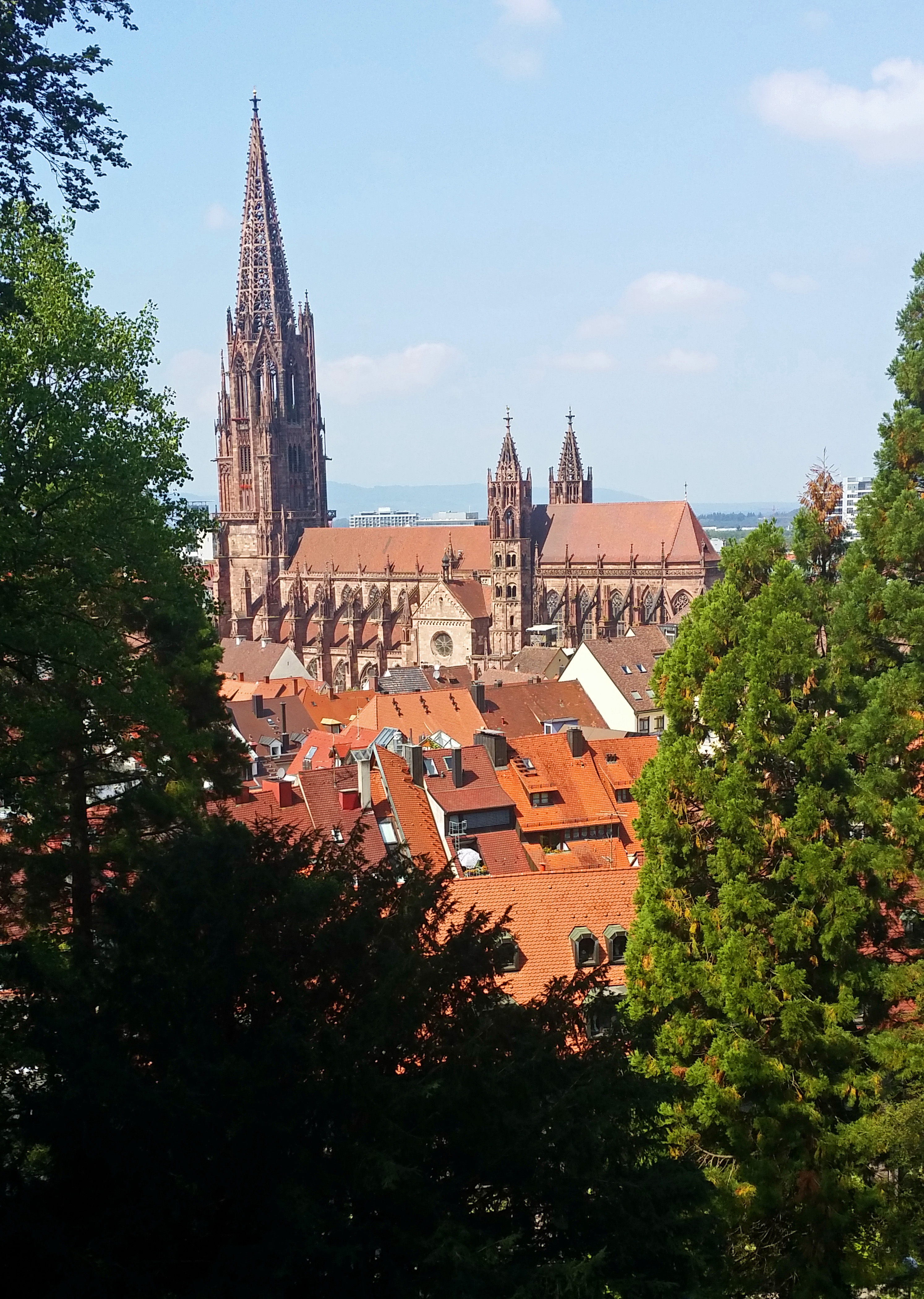 Freiburg Minster